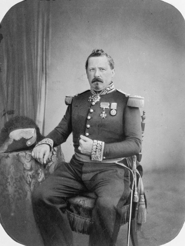 Crimean War 1854-56 General Joseph Vinoy, who commanded first a Brigade and then a Division of the Eastern Army in the Crimea, 1854-1856.